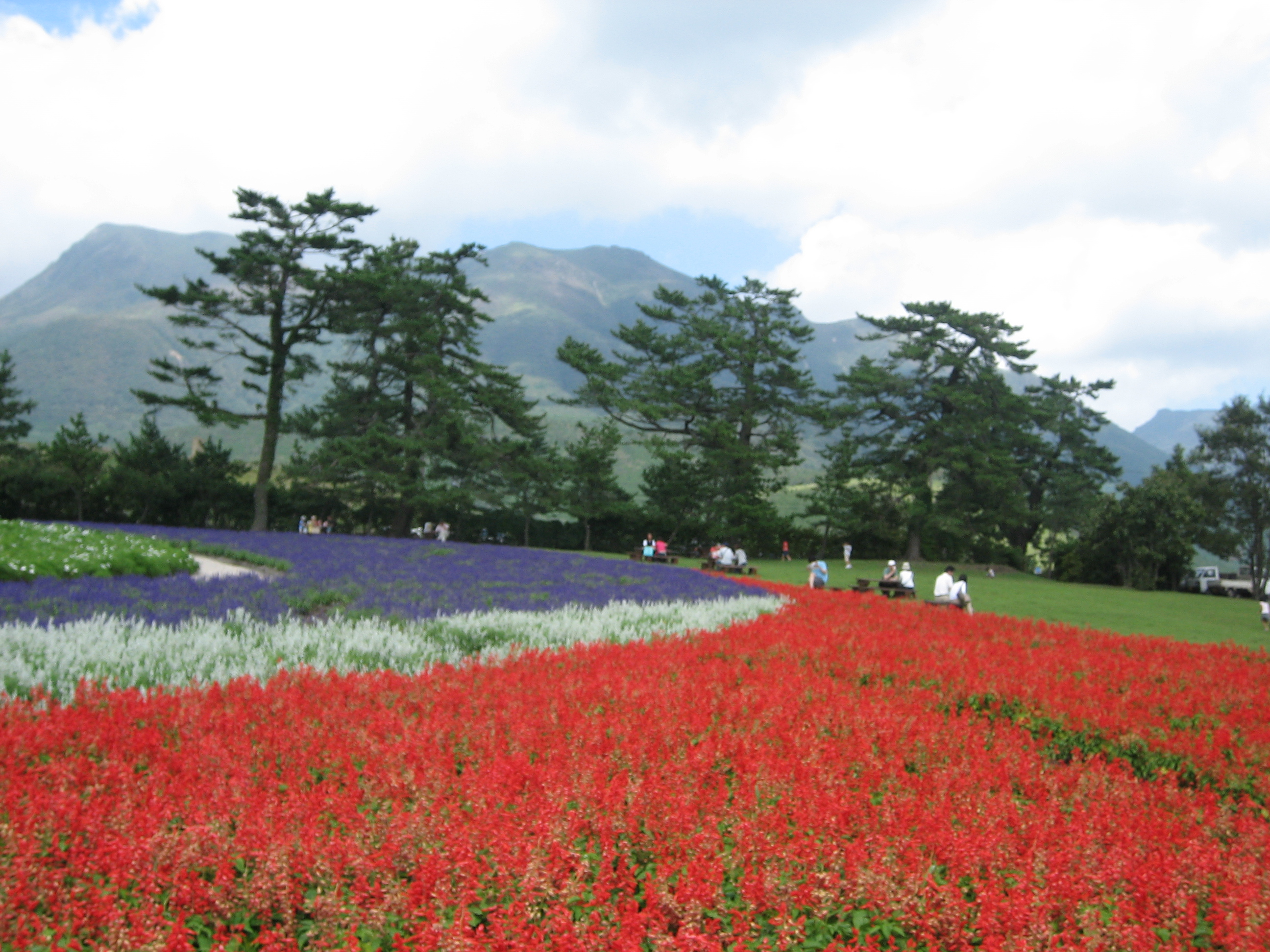 Kuju mountains from Kuju flower park